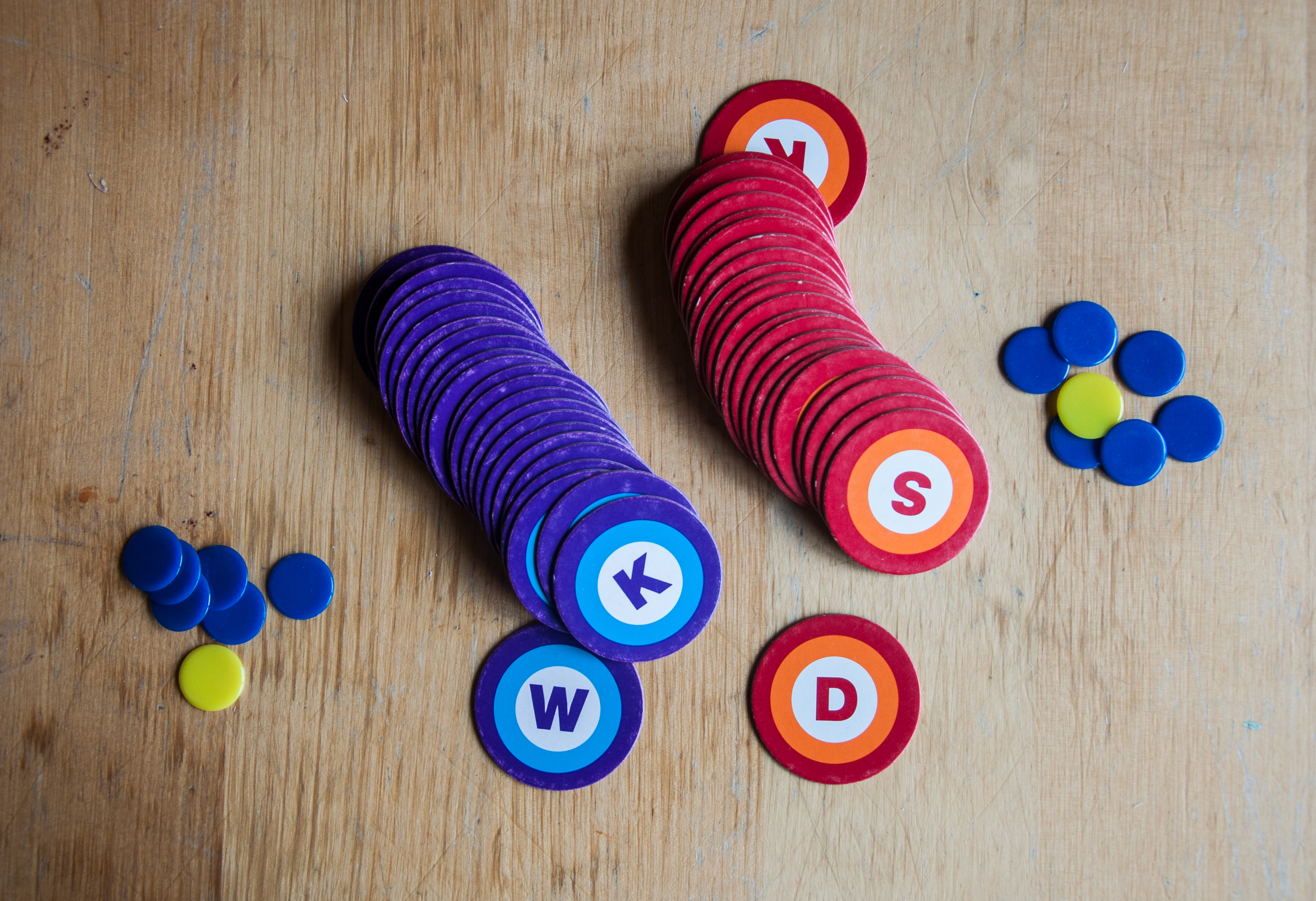 Wortfix, german card game